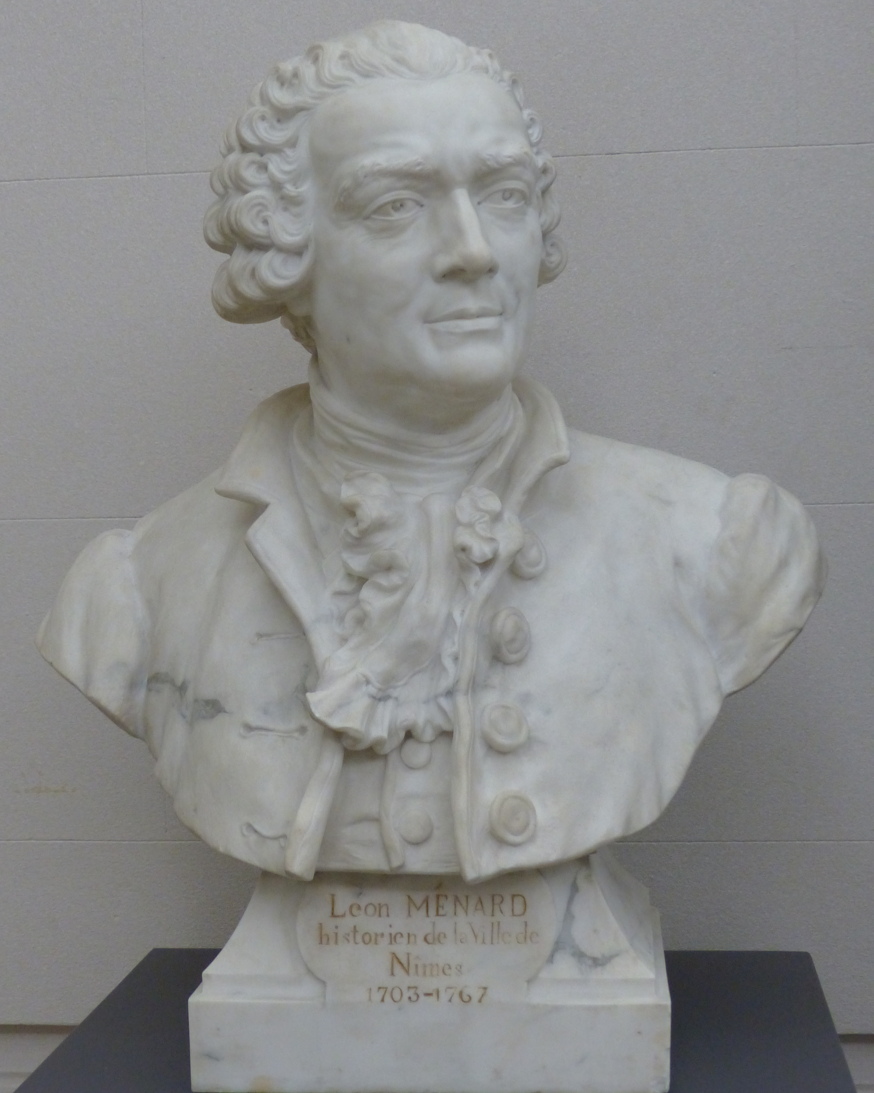 Bust